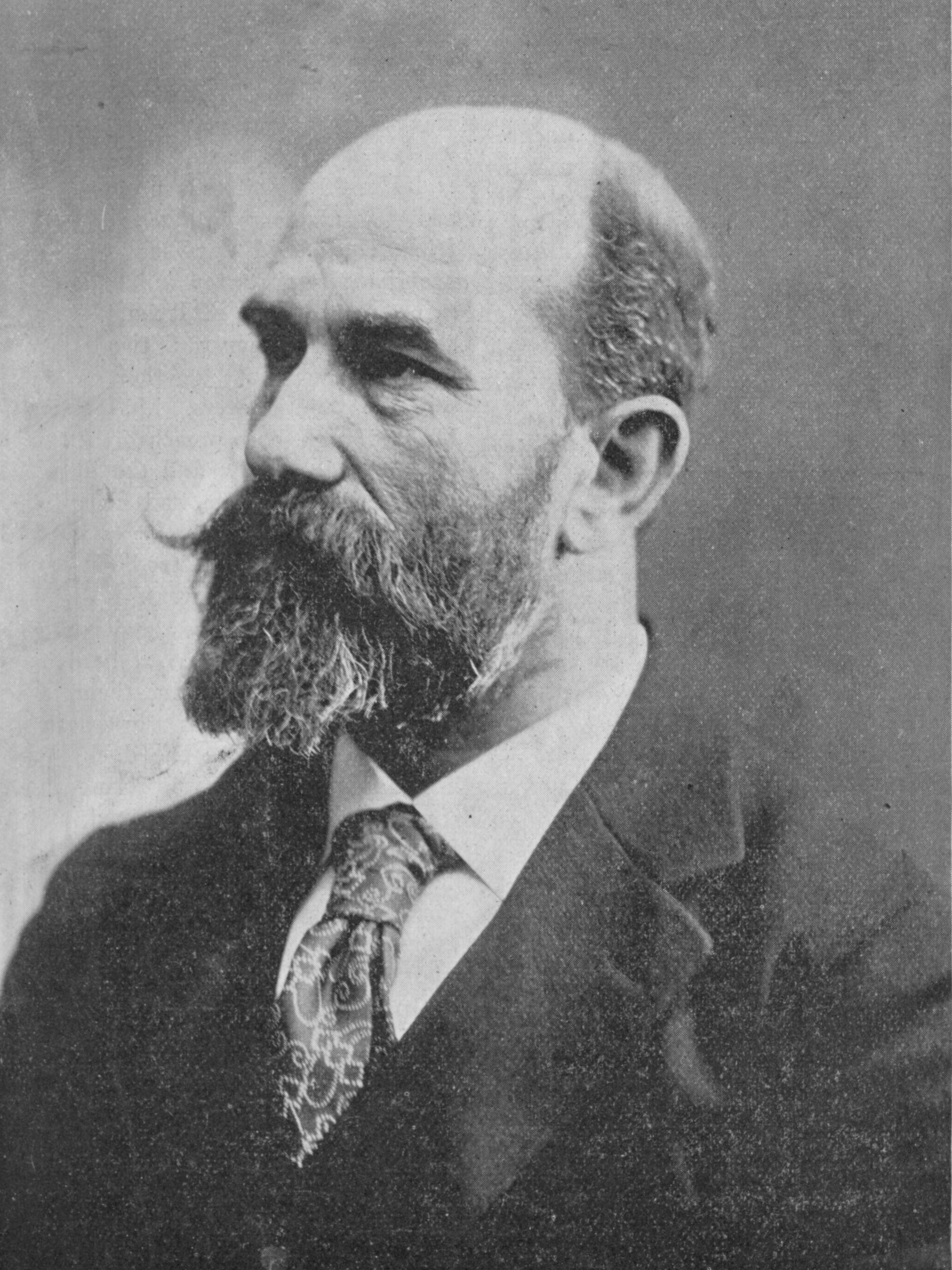 Portrait of Edward McHugh, from a scrapbook on the single tax movement housed at the New York Public Library. Image likely printed in the February 1899 issue of the National Single Taxer.